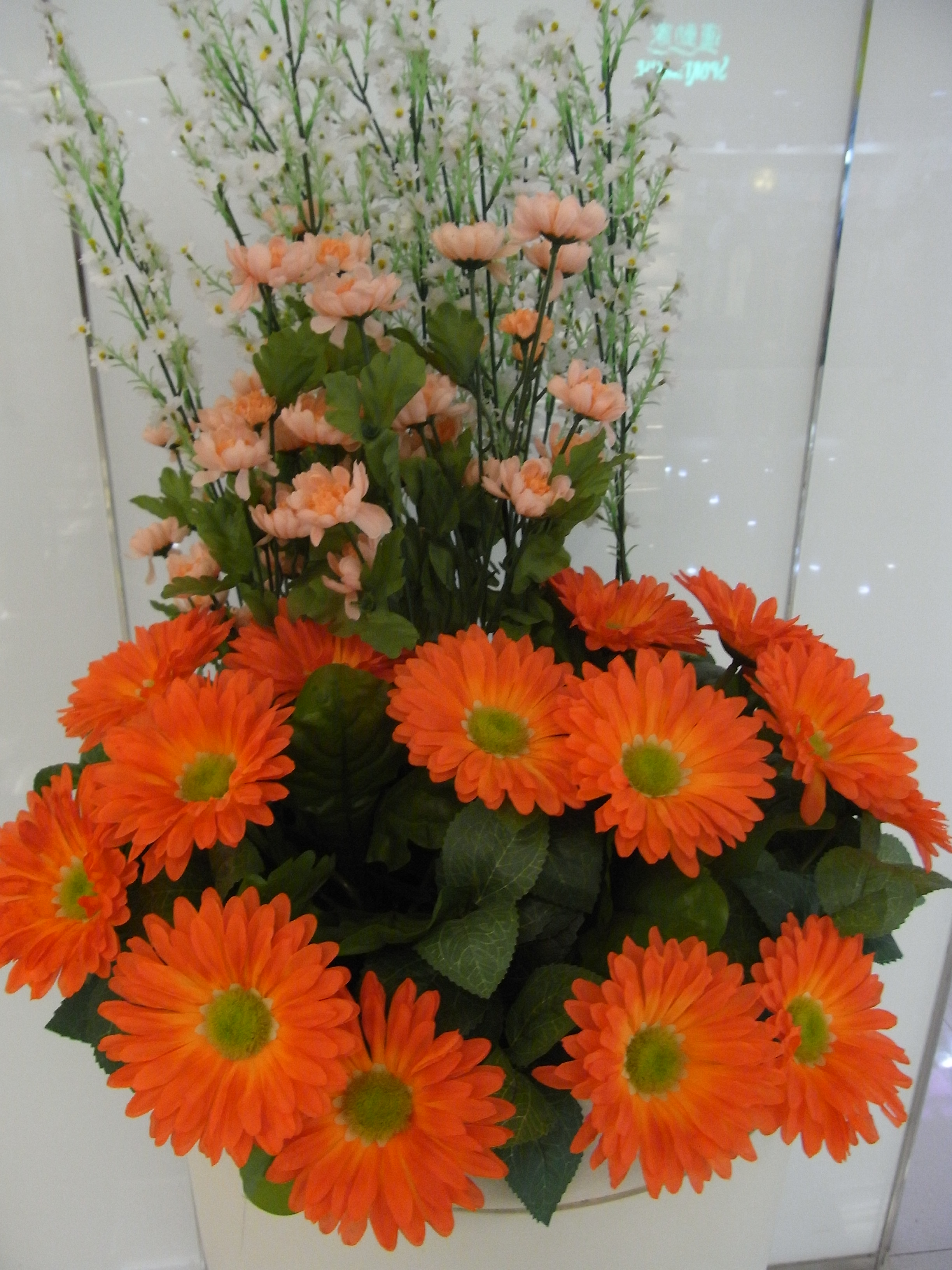 牛頭角 淘大商場, Amoy Plaza, Ngau Tau Kok, Hong Kong